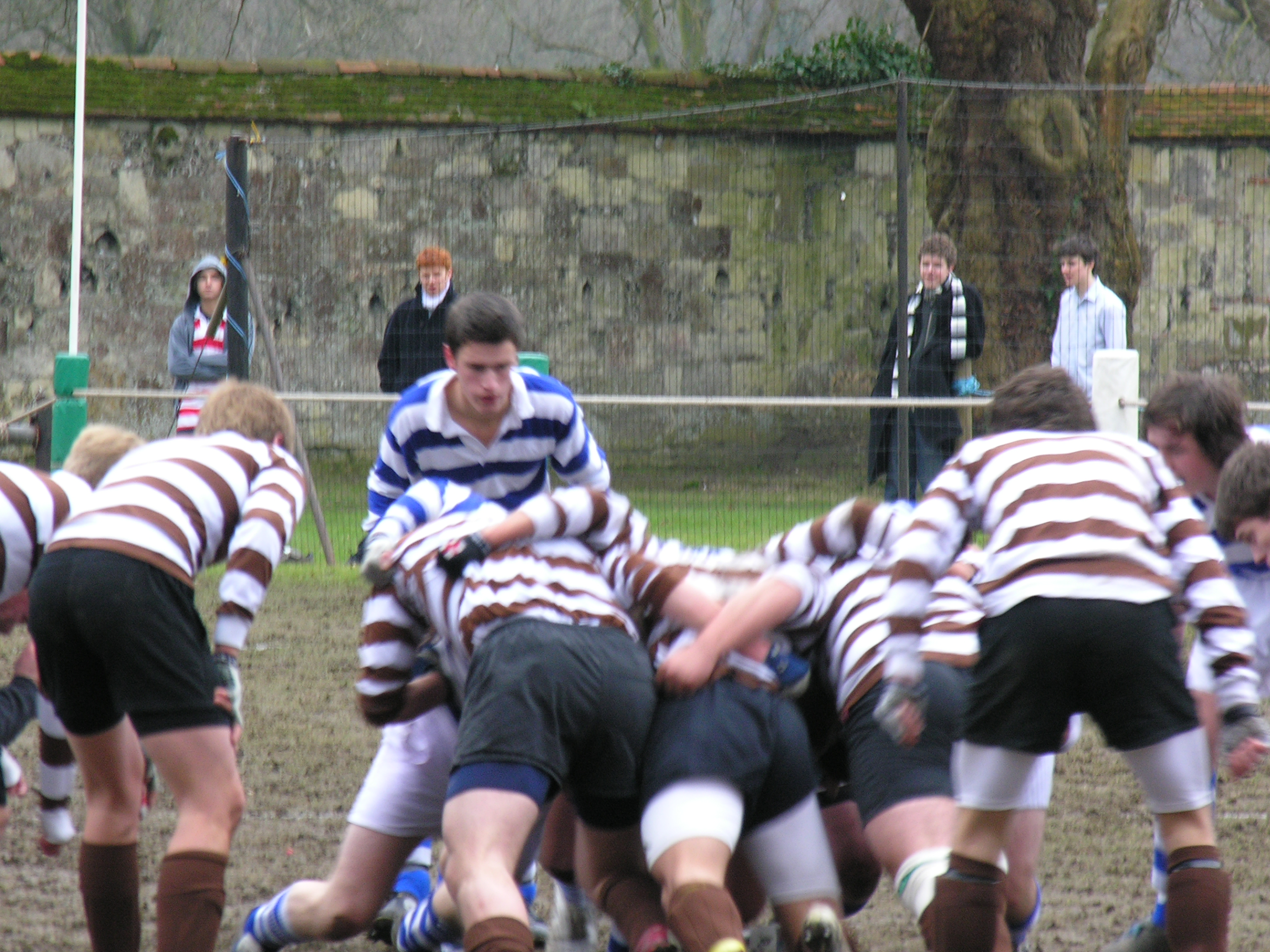 A hot